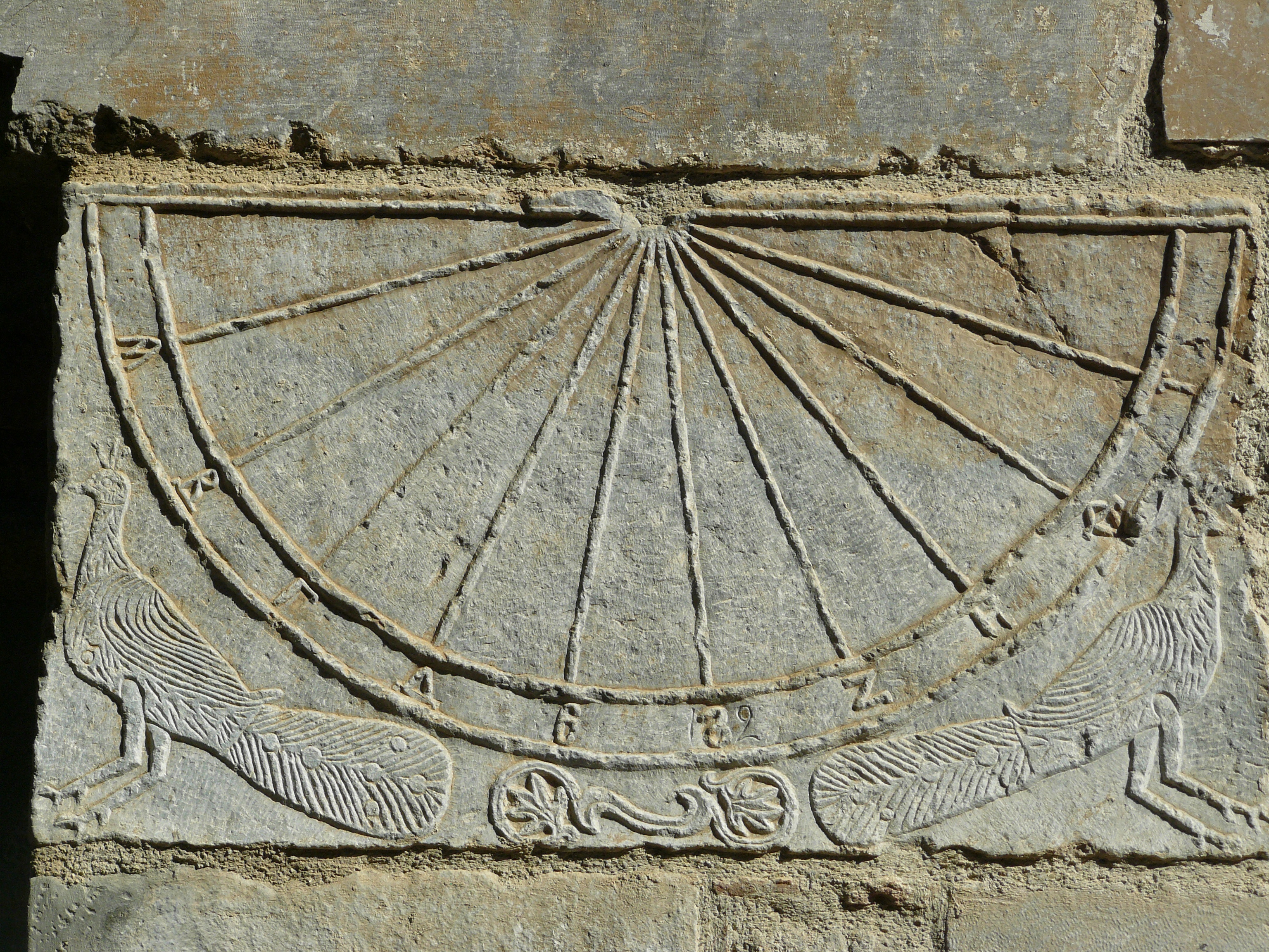 Orchomenos, Boeotia, Greece: Monastery Panagia Skripou, vertical sundial on the south wall.